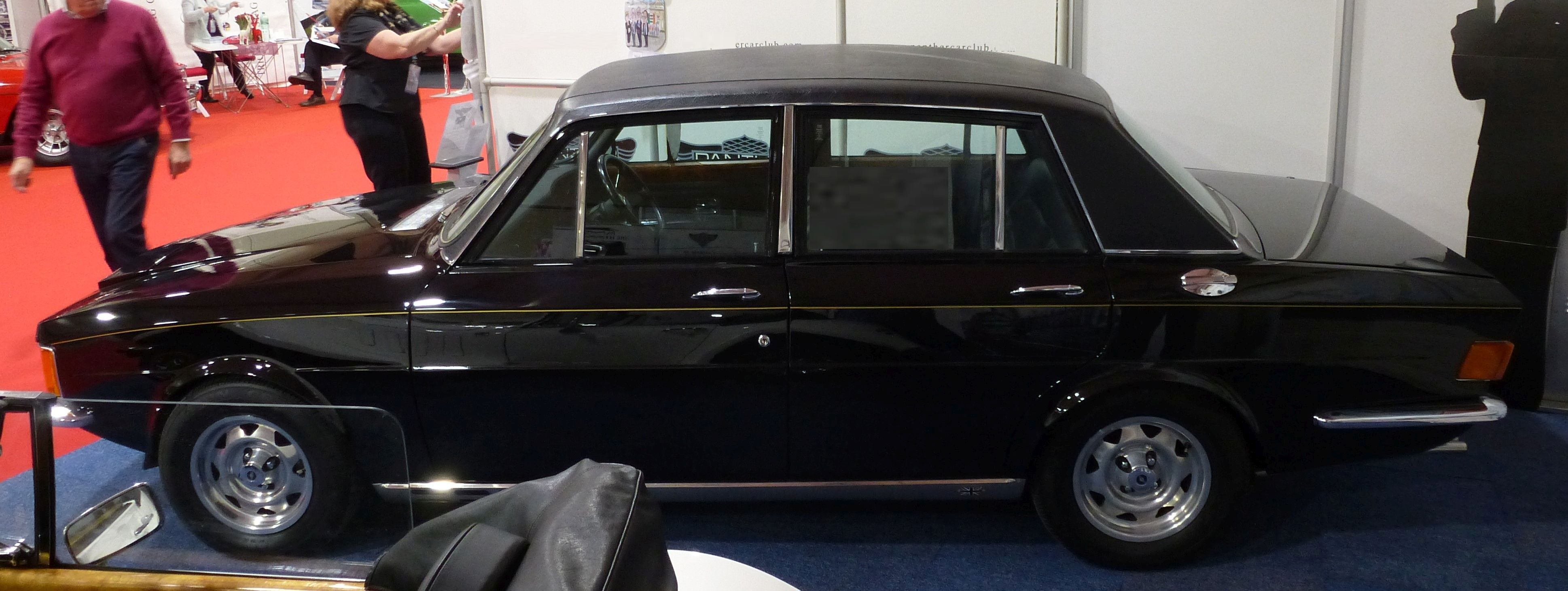 Panther Rio 1977